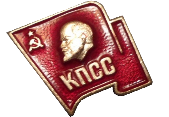 Pin of the flag of the Communist Party of the Soviet Union.